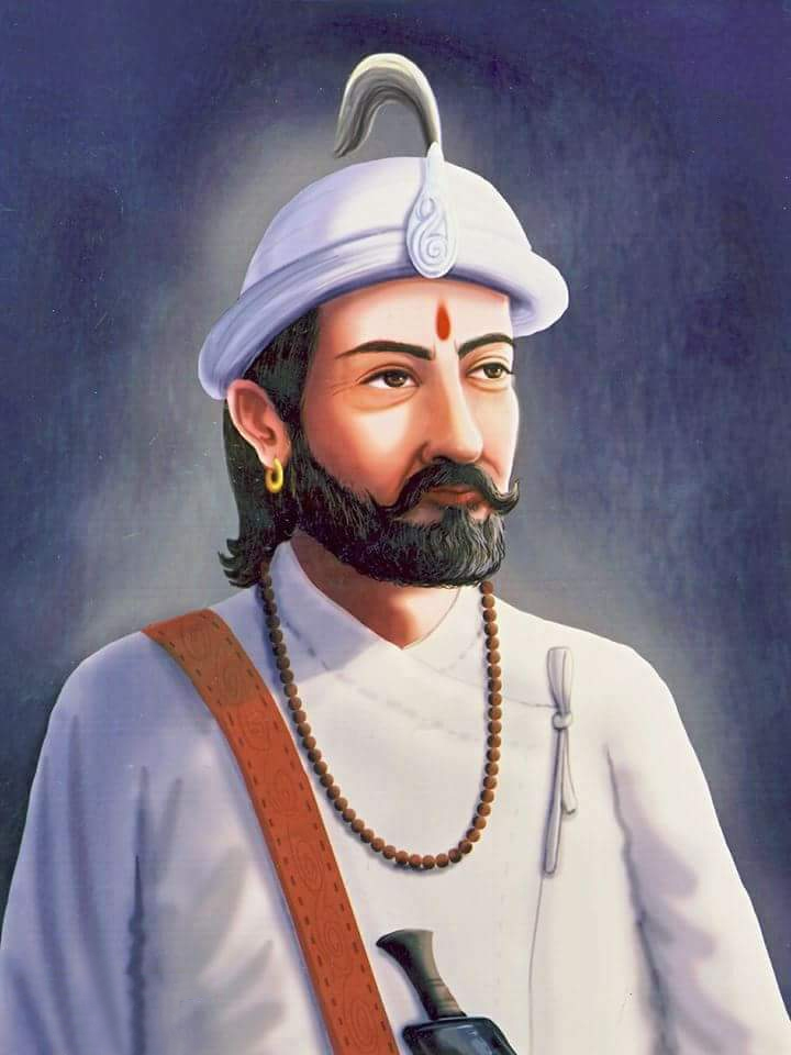 King Kalu Thapa Kshatri (Bikram Samvat 1200-1251) of Takam Parvat, titled "Santa Maharaj"; considered male progenitor (Mulapuruśa) of all Bagale Thapa Chhetris/Kshetris; first Kshatriya king of 4000 Parvat Kingdom (or Takam Kingdom[1]) Installed (Yagyopavit/Upanayana) into Aatreya clan of Madhayandini Shukla Yajurveda. Ascended the Takam throne on 1246 Bikram Samvat (1189/90 AD). He is considered the male progenitor of Bagale Thapa clan since no person of Bagale clan is traceable before him.